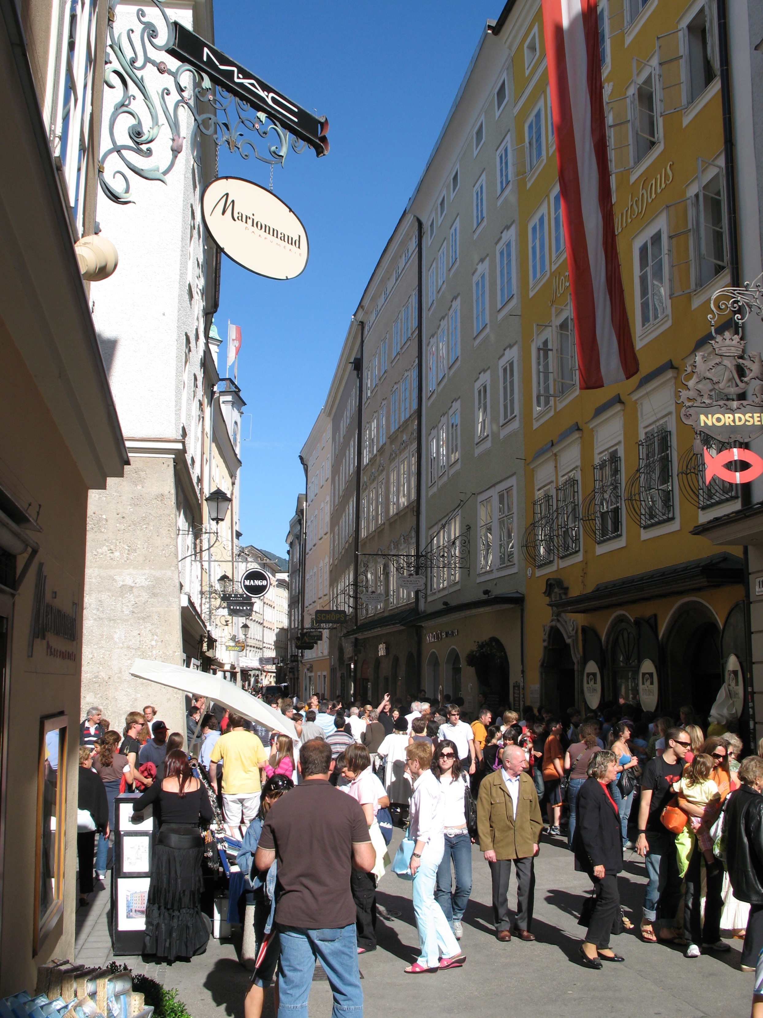 Austria, Salzburg, Getreidegasse